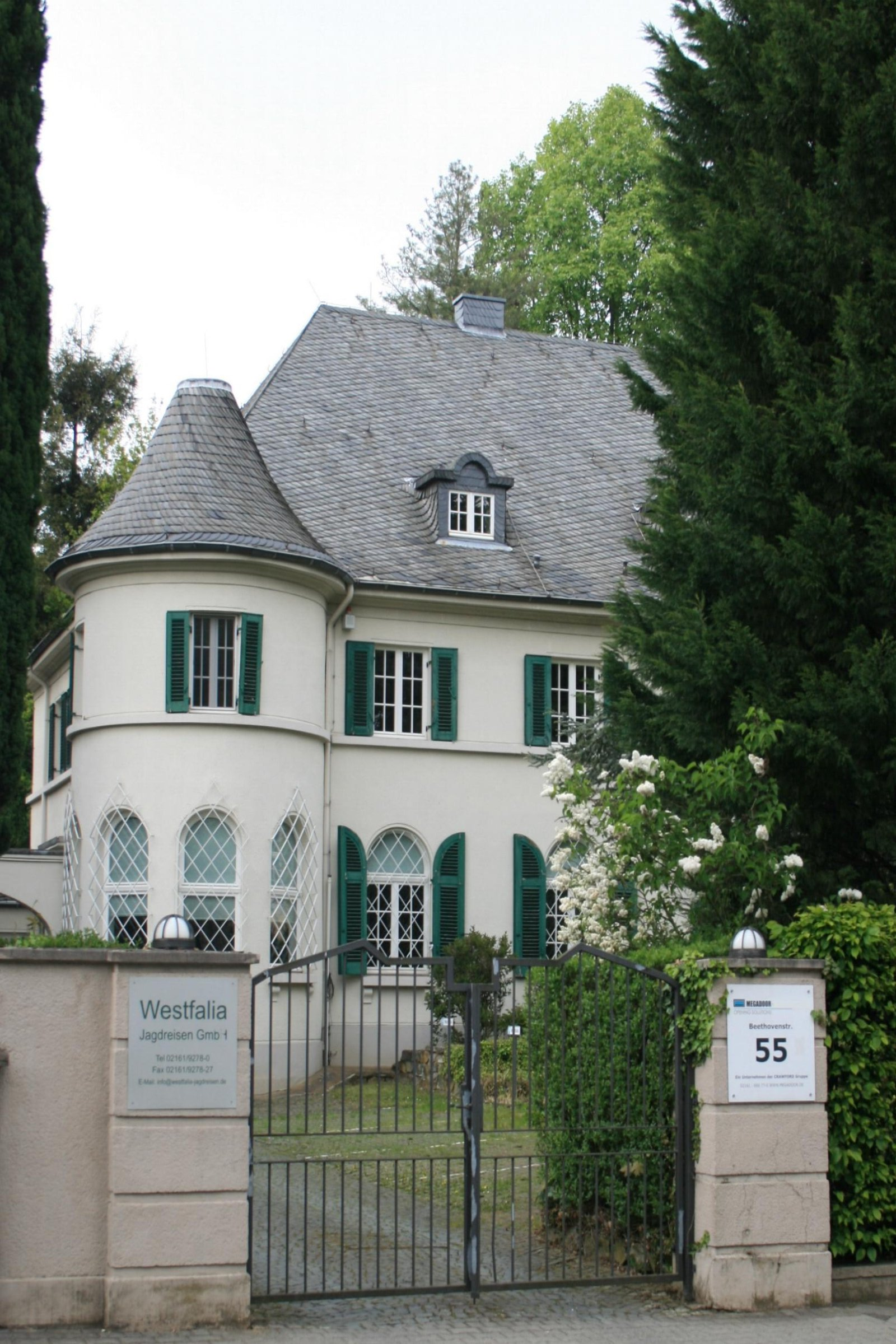 Cultural heritage monument No. B 152 in Mönchengladbach